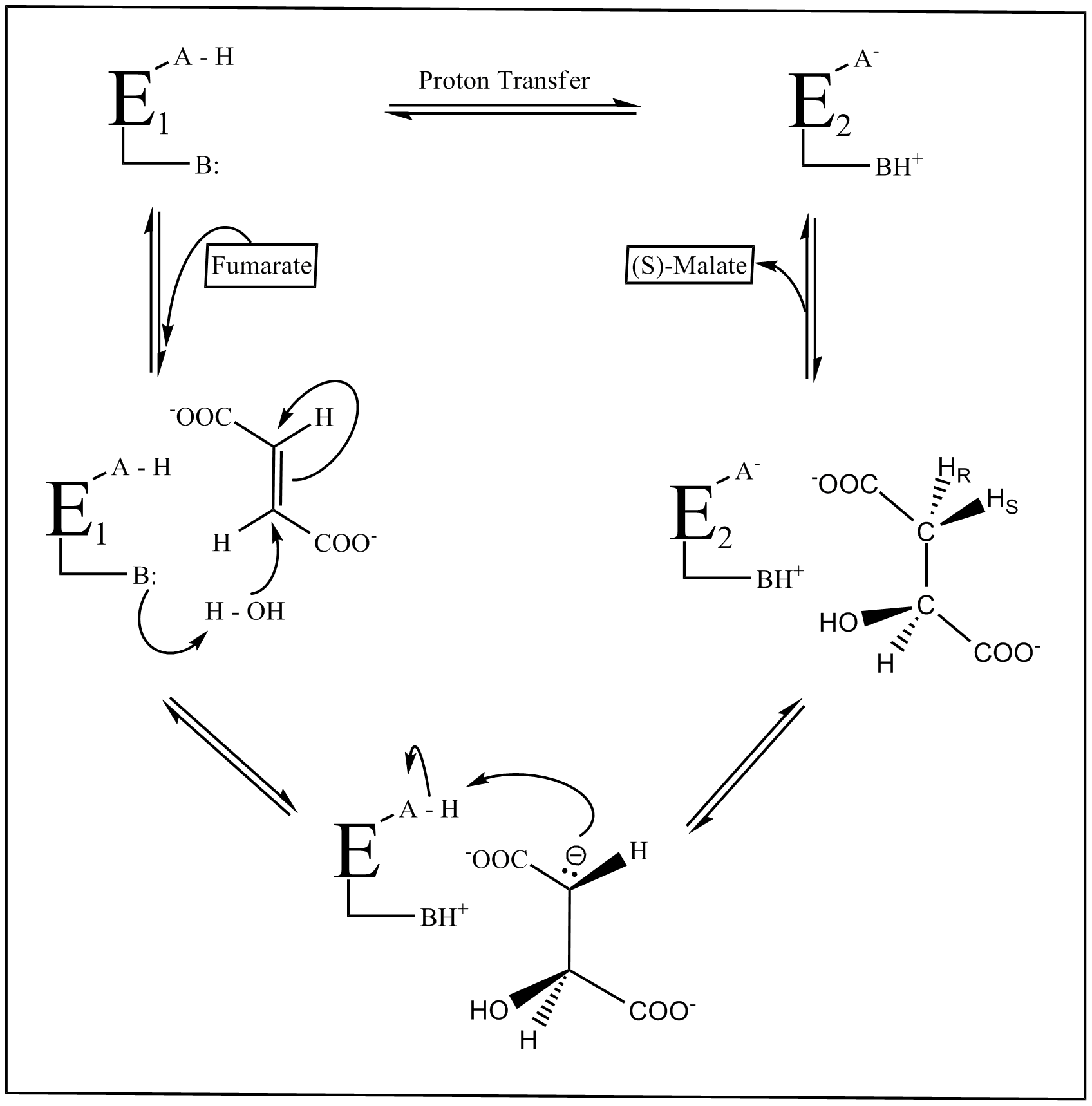 Adapted from Enzyme Reaction Mechanisms